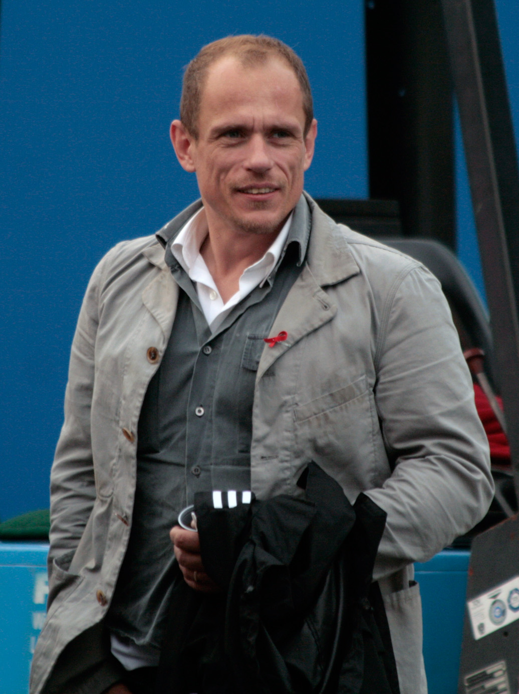 Gery Keszler during rehearsals for the Life Ball 2009.